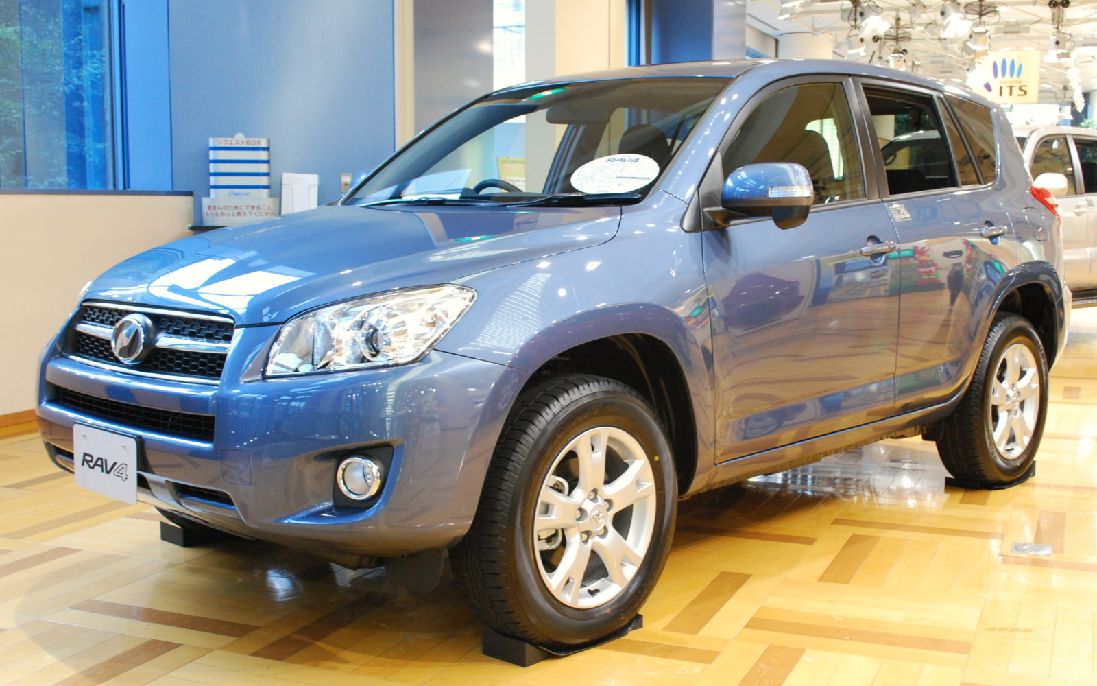 3rd generation Toyota RAV4 (2008/9 - ) photograhped at AMLUX